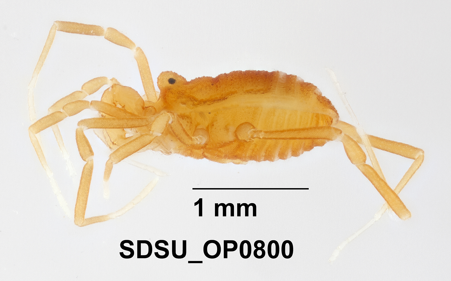 Texella bifurcata (Briggs, 1968); PRESERVED_SPECIMEN; MALE; ; 18/04/2006 00:00; Identified by: M Hedin